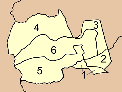 Map of Chulabhorn district, Nakhon Si Thammarat province, Thailand, with the communes (tambon) numbered. Ban Khuan Mut (บ้านควนมุด) Ban Cha-uat (บ้านชะอวด) Khuan Nong Khwa (ควนหนองคว้า) Thung Pho (ทุ่งโพธิ์) Na Mo Bun (นาหมอบุญ) Sam Tambon (สามตำบล)